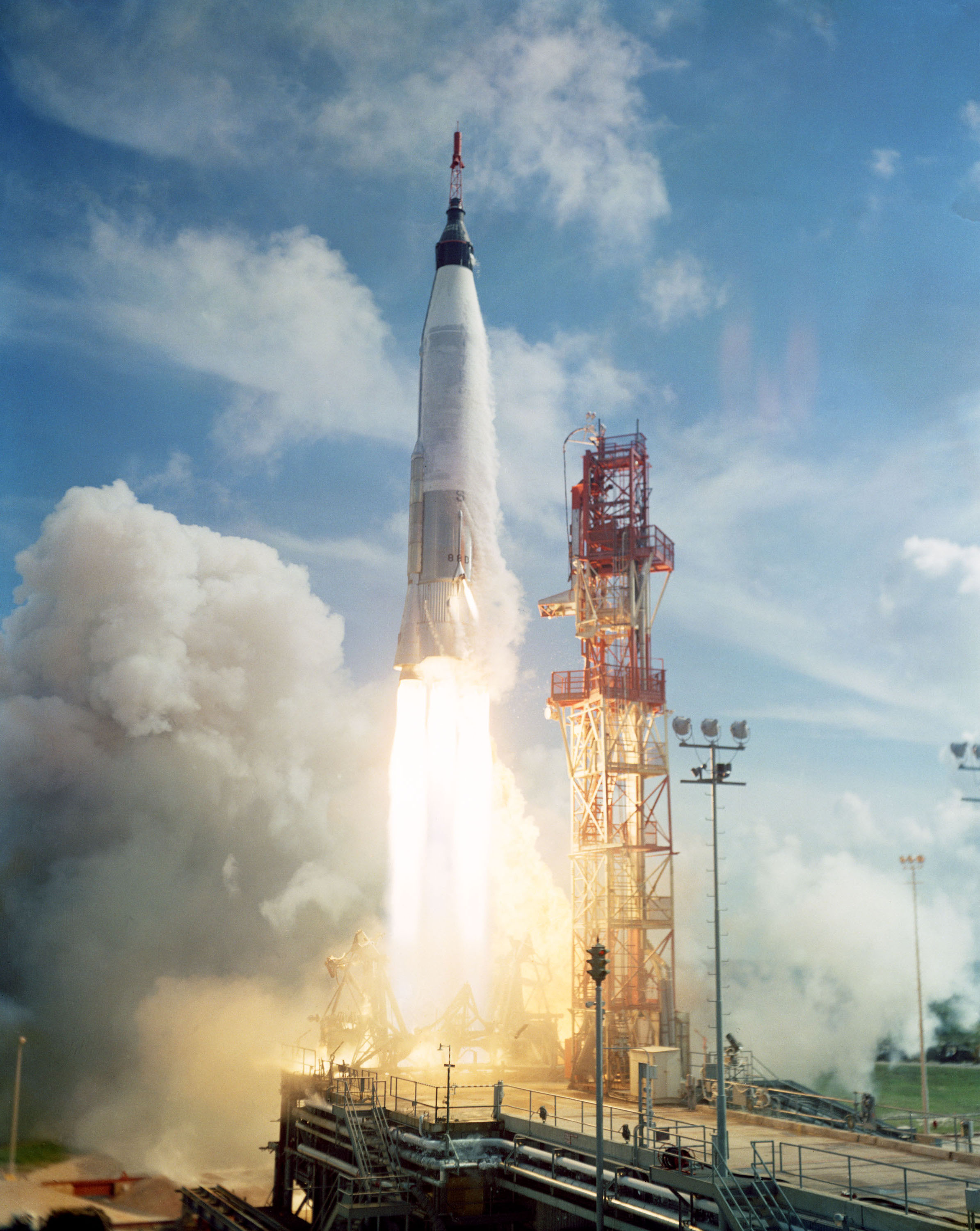 View of the launch of the Mercury-Atlas 4 spacecraft from Cape Canaveral, Florida on Sept. 13, 1961.